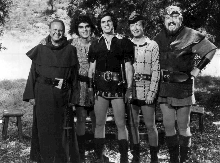 Cast photo from the short-lived television program When Things Were Rotten. From left-Dick Van Patten, Richard Dimitri, Richard "Dick" Gautier, Bernie Kopell, David Sabin.